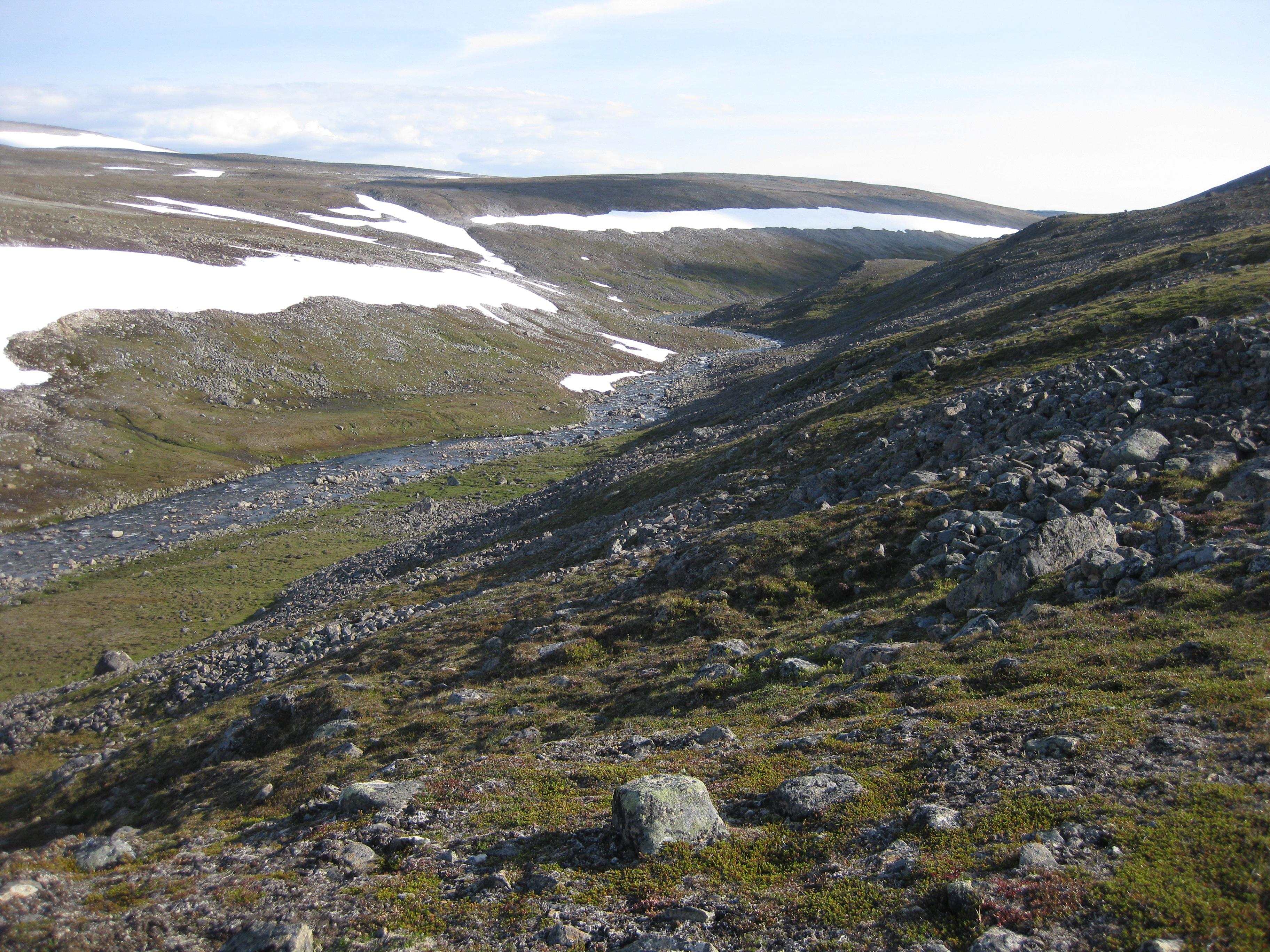 The river Máttimuš Borsejohka in Tana, Finnmark, Norway